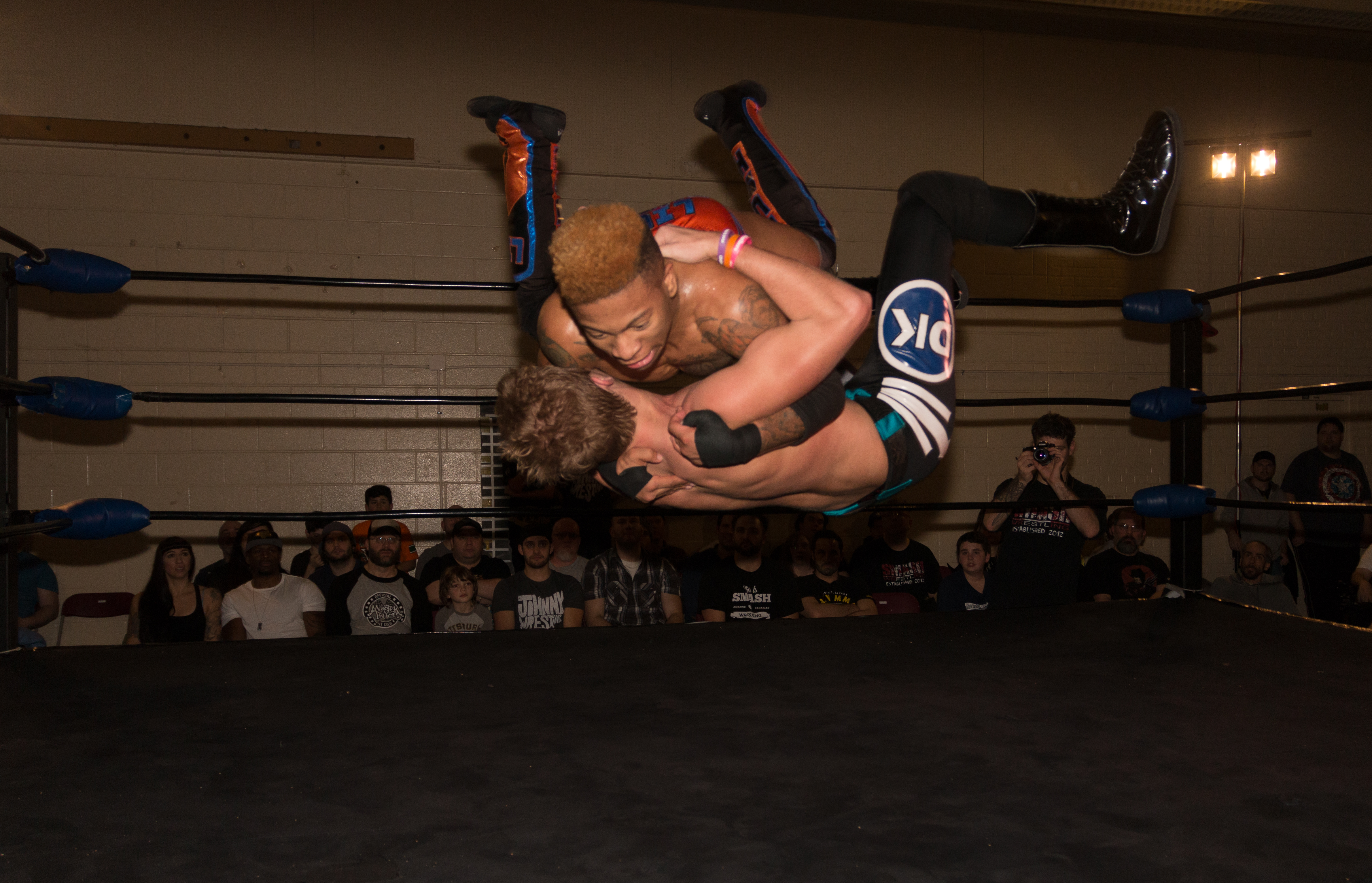 Lio Rush executing his Rush Hour finisher onto Kevin Bennett at a Smash Wrestling show in Etobicoke, ON